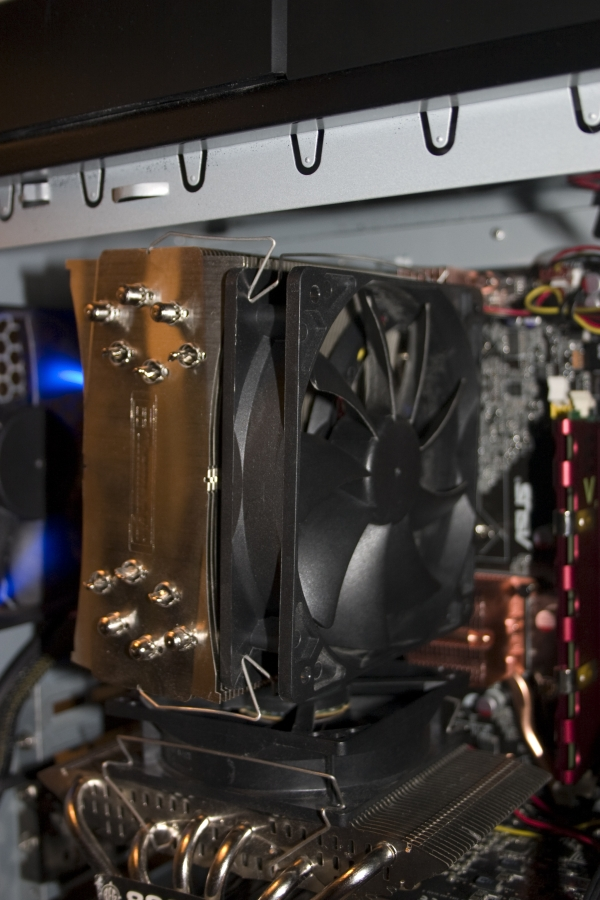 Thermalright Ultra 120 Extreme (GPU heatsink)